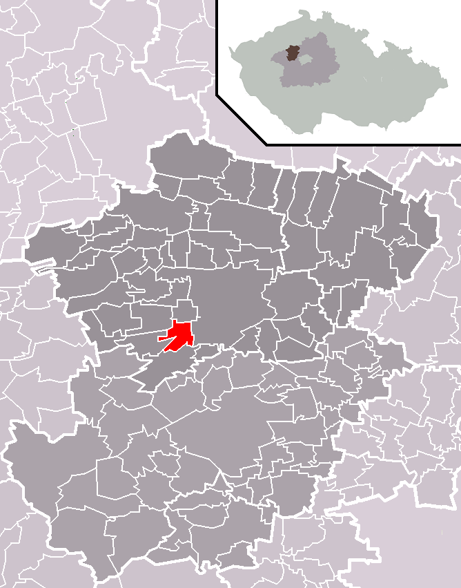 Location of Přelíc municipality within Kladno District and administrative area of Slaný as a Municipality with Extended Competence.